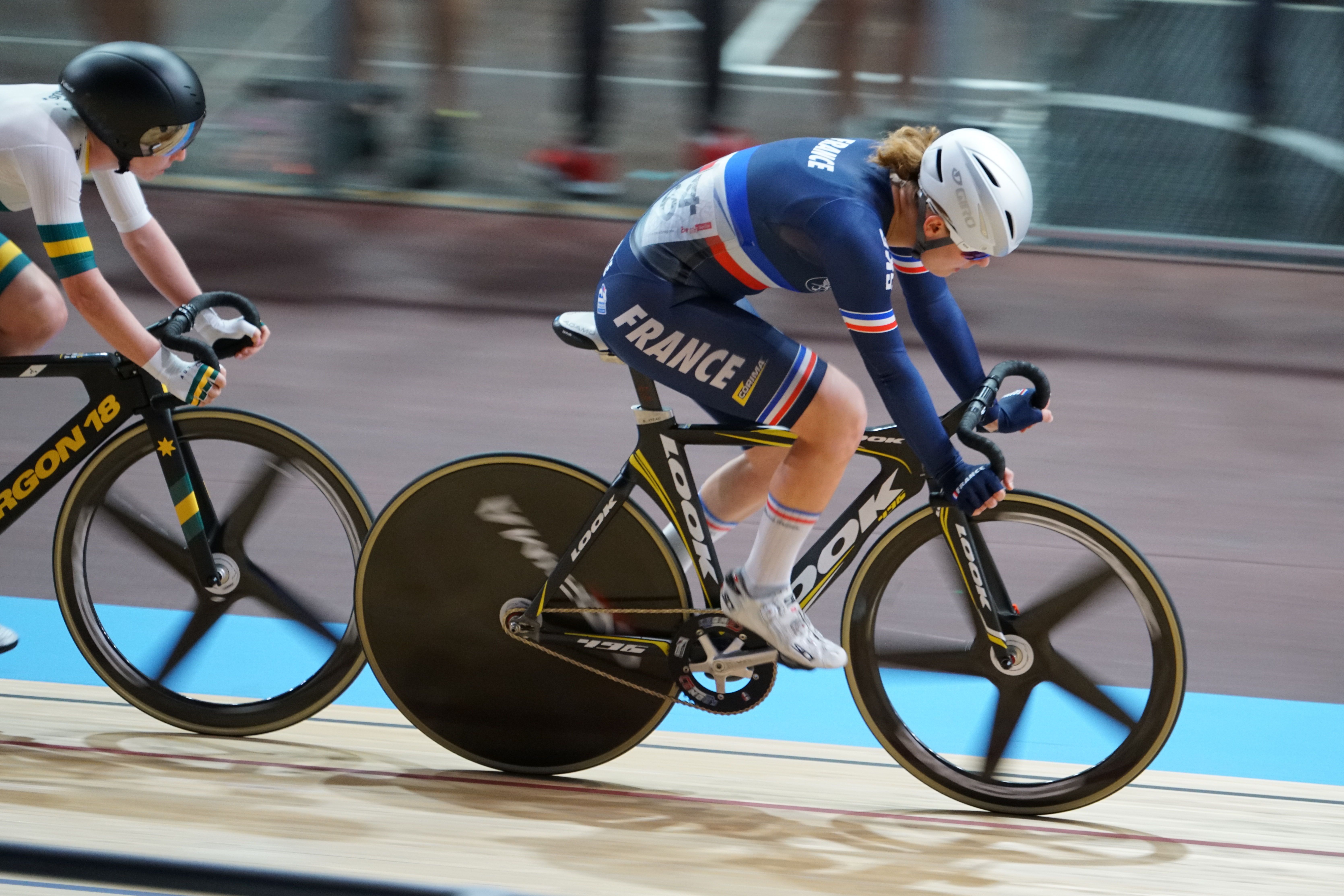 2020 UCI Track Cycling World Championships – Women's Scratch Race - Victoire Berteau